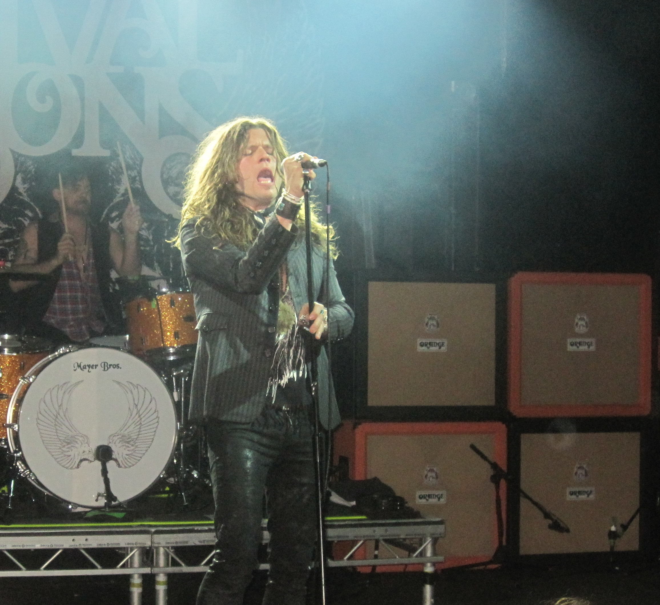 Jay Buchanan live with Rival Sons, Cambridge Junction, 16th April 2013